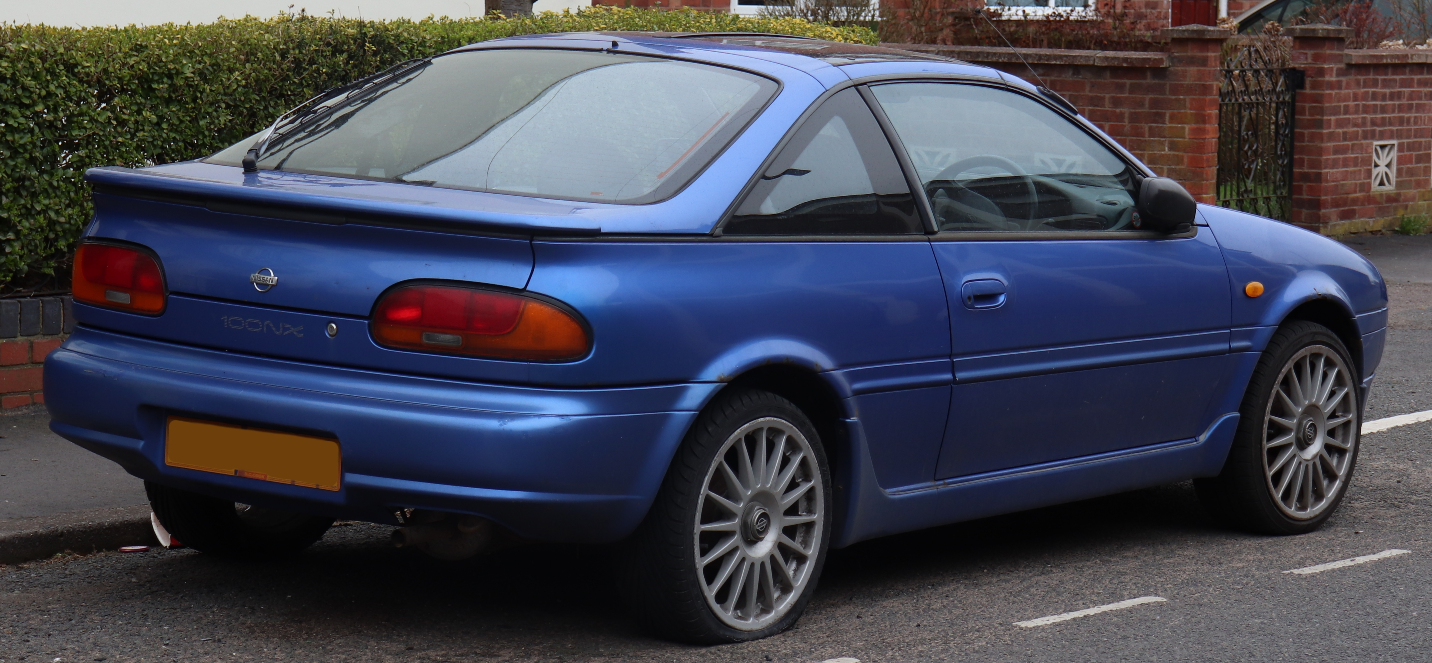 1995 Nissan 100NX 1.6 Rear Taken in Warwick